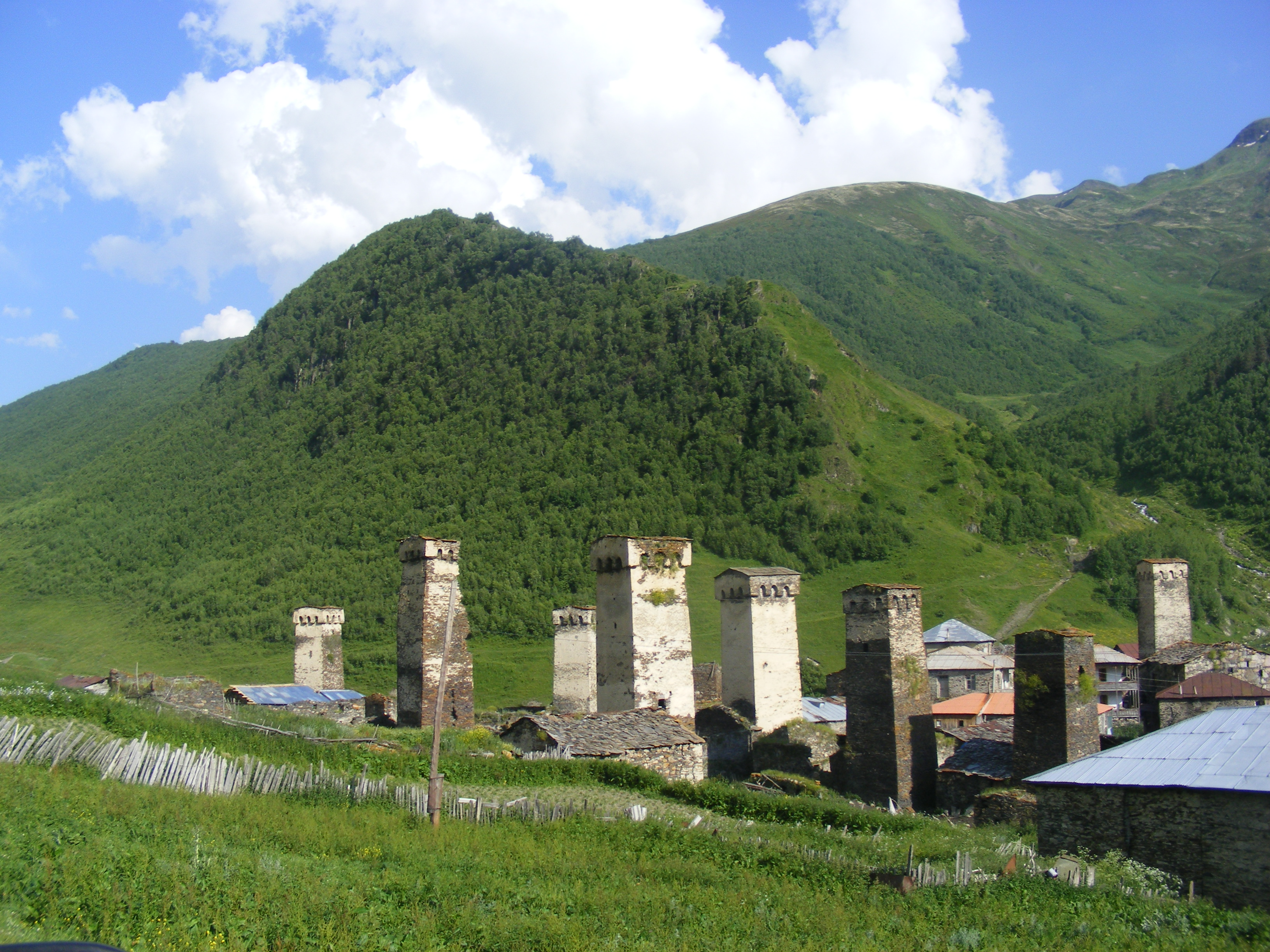 Murqmeli, part of Ushguli, Mestia district, Georgia